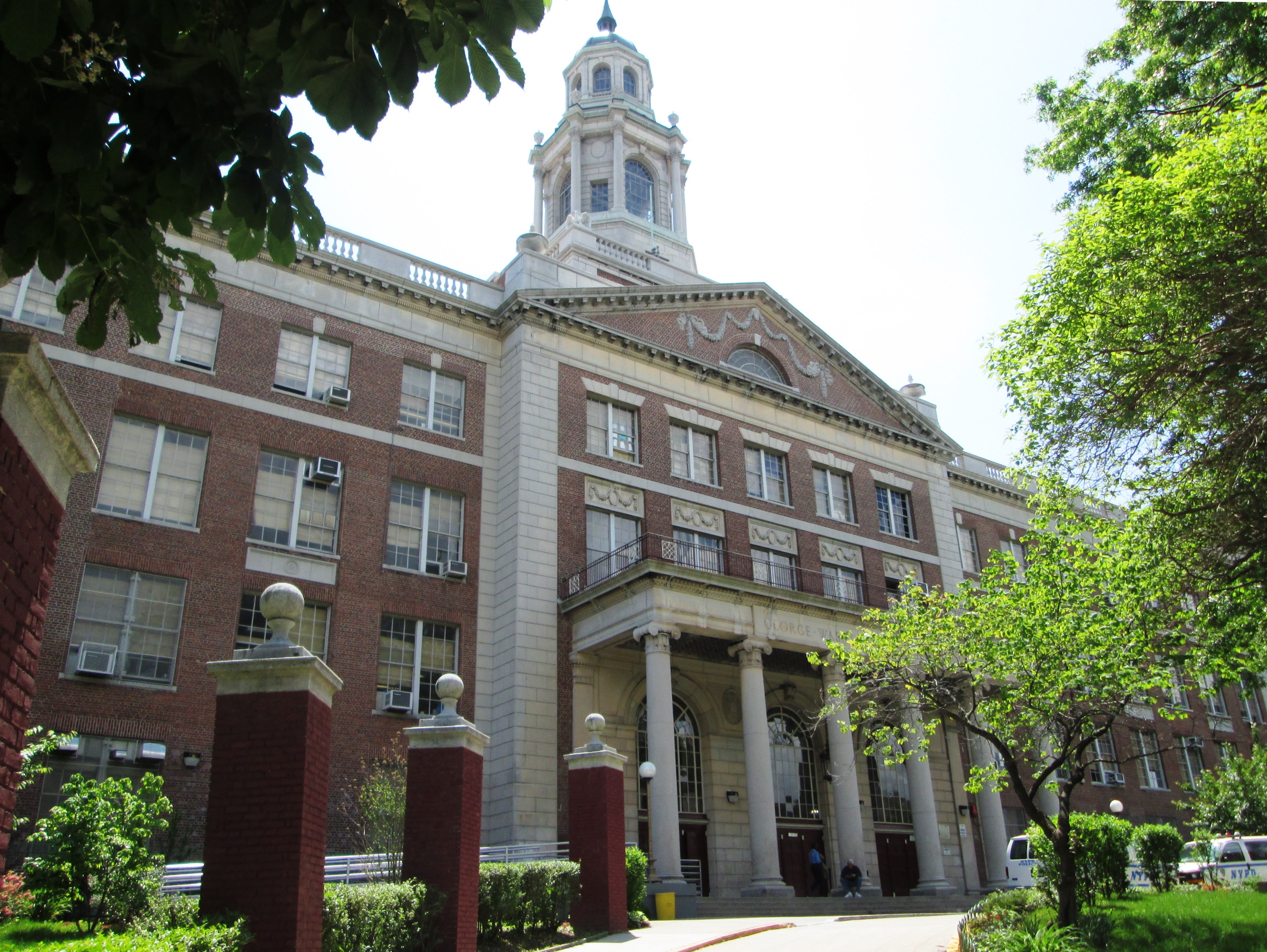 The George Washington Educational Campus is a facility of the New York City Department of Education located at 549 Audubon Avenue at West 193rd Street in the Fort George neighborhood of the Washington Heights area of Manhattan, New York City. The building was opened on February 2, 1917 as an annex of Morris High School in the Bronx. George Washington High School was founded in 1919, and moved into the building in 1925. It was known by that name until 1999, when the building was divided into the four small schools. High School for Media and Communications (M463) College Academy, formerly the High School for International Business and Finance (M462) High School for Health Careers and Sciences (M468) High School for Law and Public Service (M467)